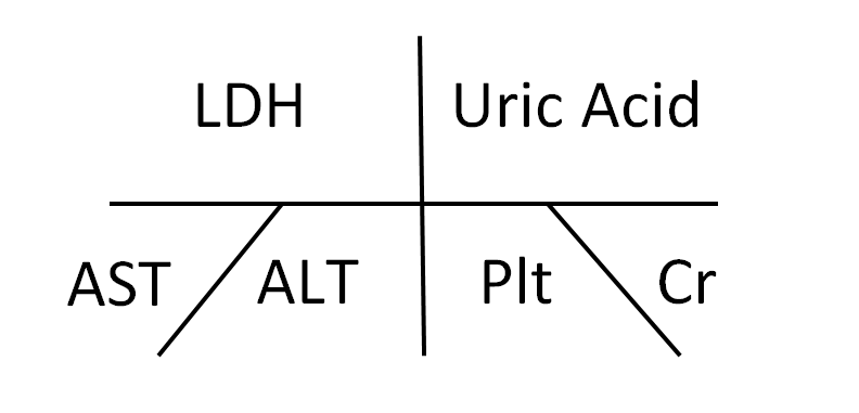 Preeclampsia Fishbone Schematic